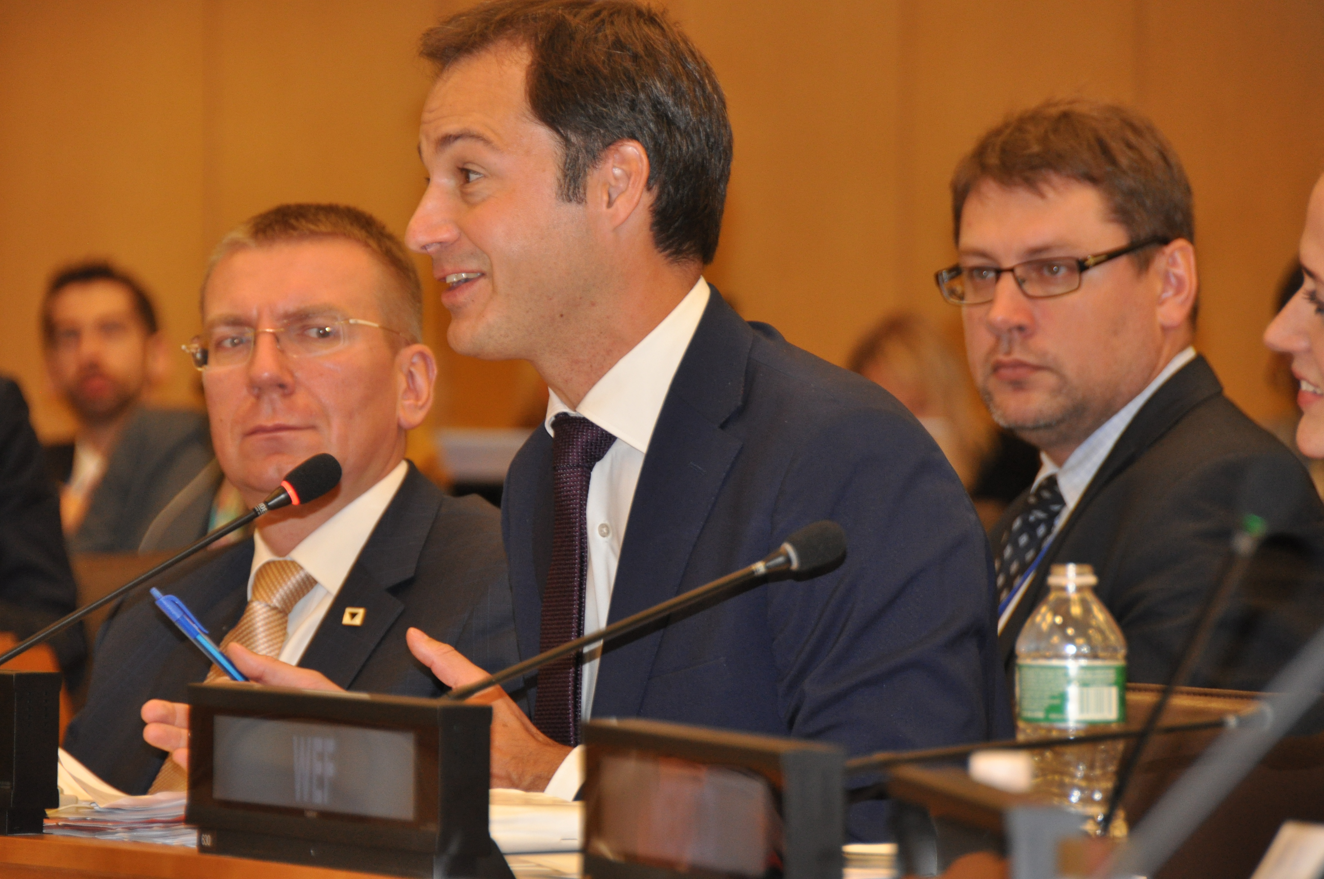 Development in the Digital Age, a High-Level panel discussion at United Nations Headquarters